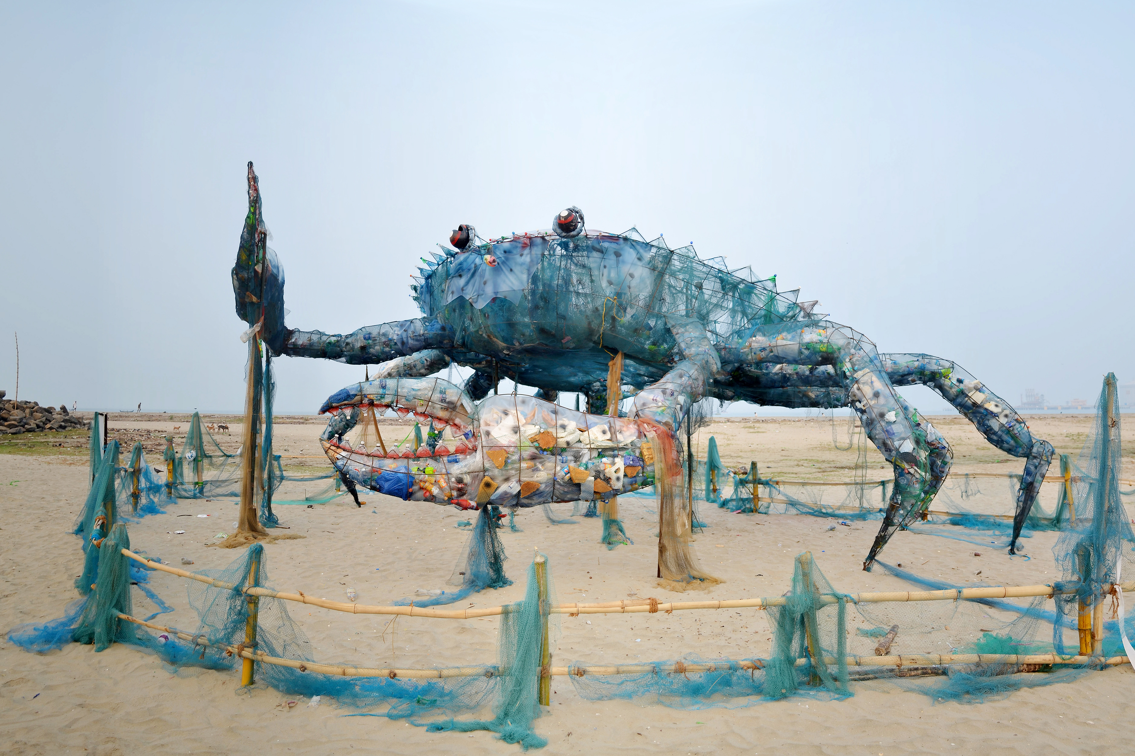 Crab structure made with discarded plastic bottles and save the beach from garbage, at Fort Kochi